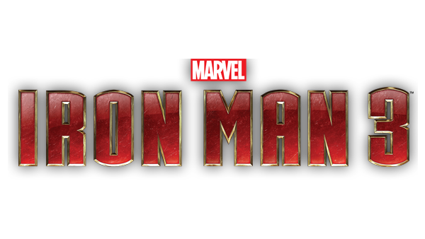 chbhbvhjgvhgv